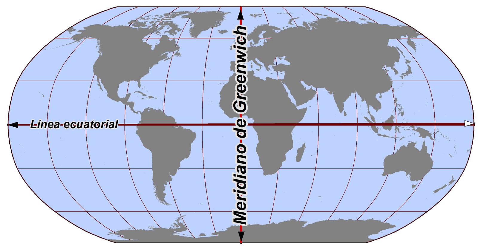 Meridiano de greenwich See also: English version and version with no labels.